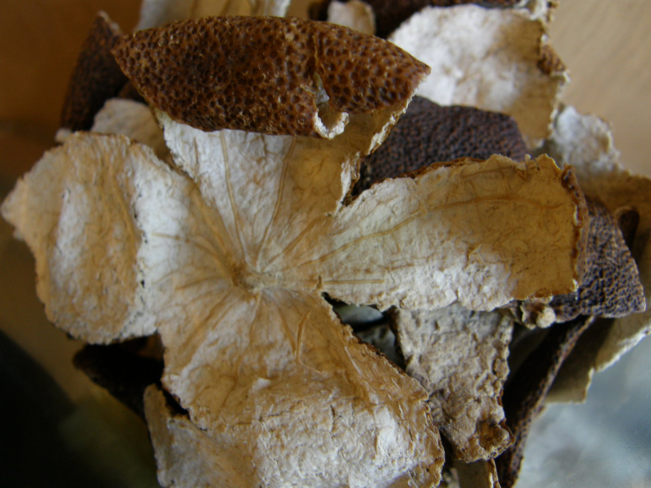 Chenpi or chen pi is sun-dried tangerine (mandarin) peel used as a traditional seasoning in Chinese cooking and traditional medicine. They are aged by storing them dry. They have a pungent and bitter taste.